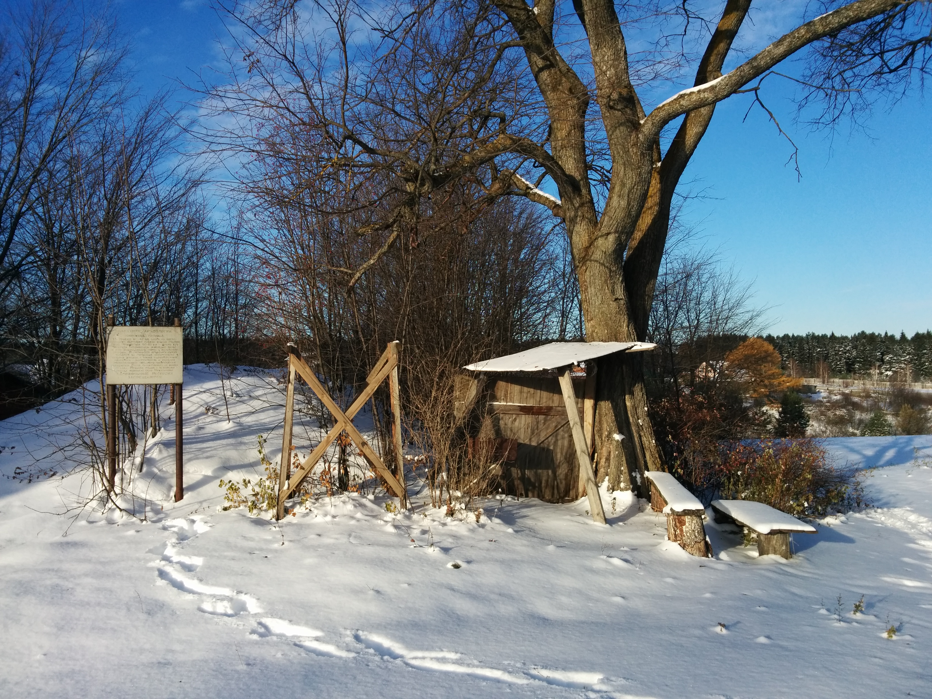 Gradisce in Nikulchino, Kirov region, Russia)